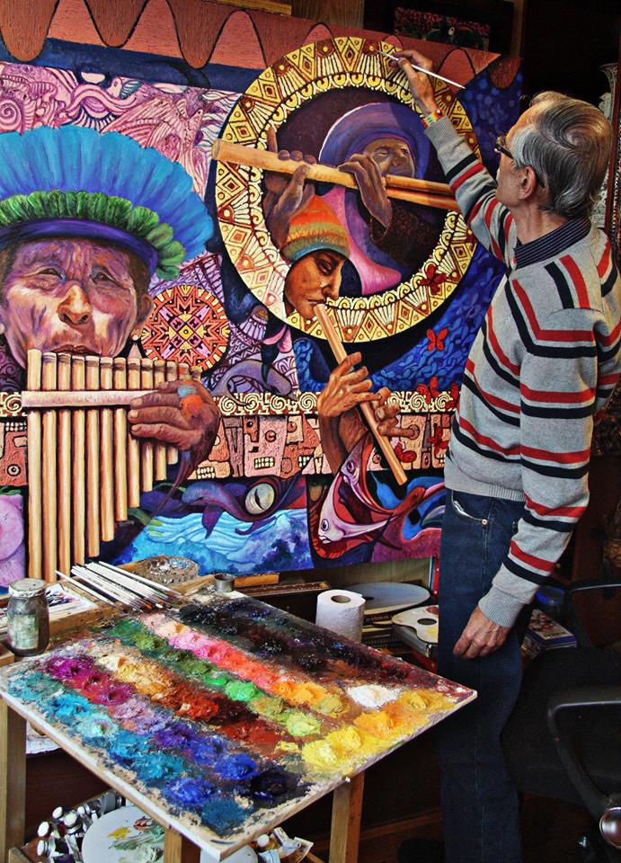 Alfredo Vivero. Pintor, escultor y escritor Precolombino